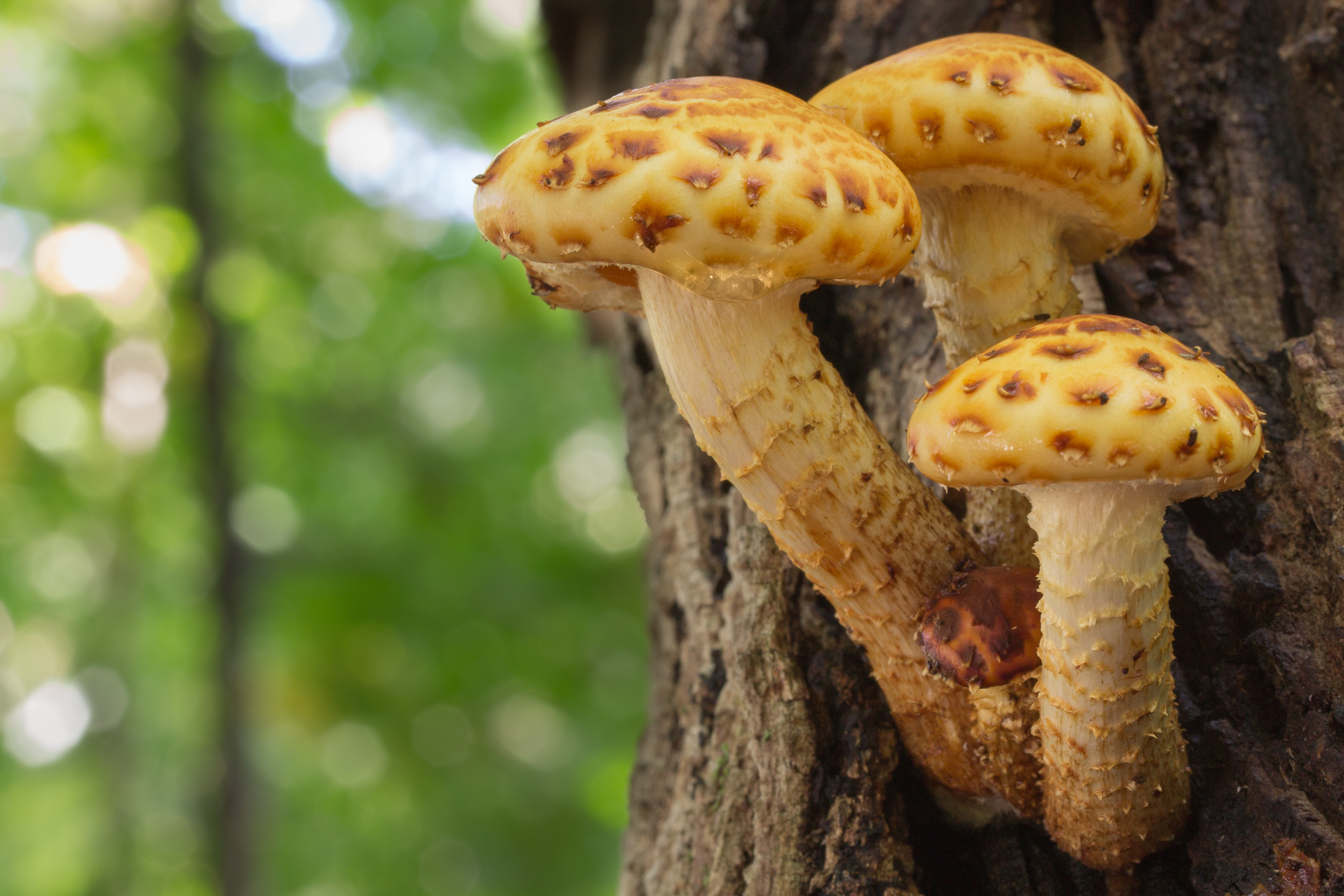 Pholiota aurivella (Batsch) P. Kumm. Image location: Busse Woods, Elk Grove Village, Illinois, USA Recognized by sight For more information about this, see the observation page at Mushroom Observer.